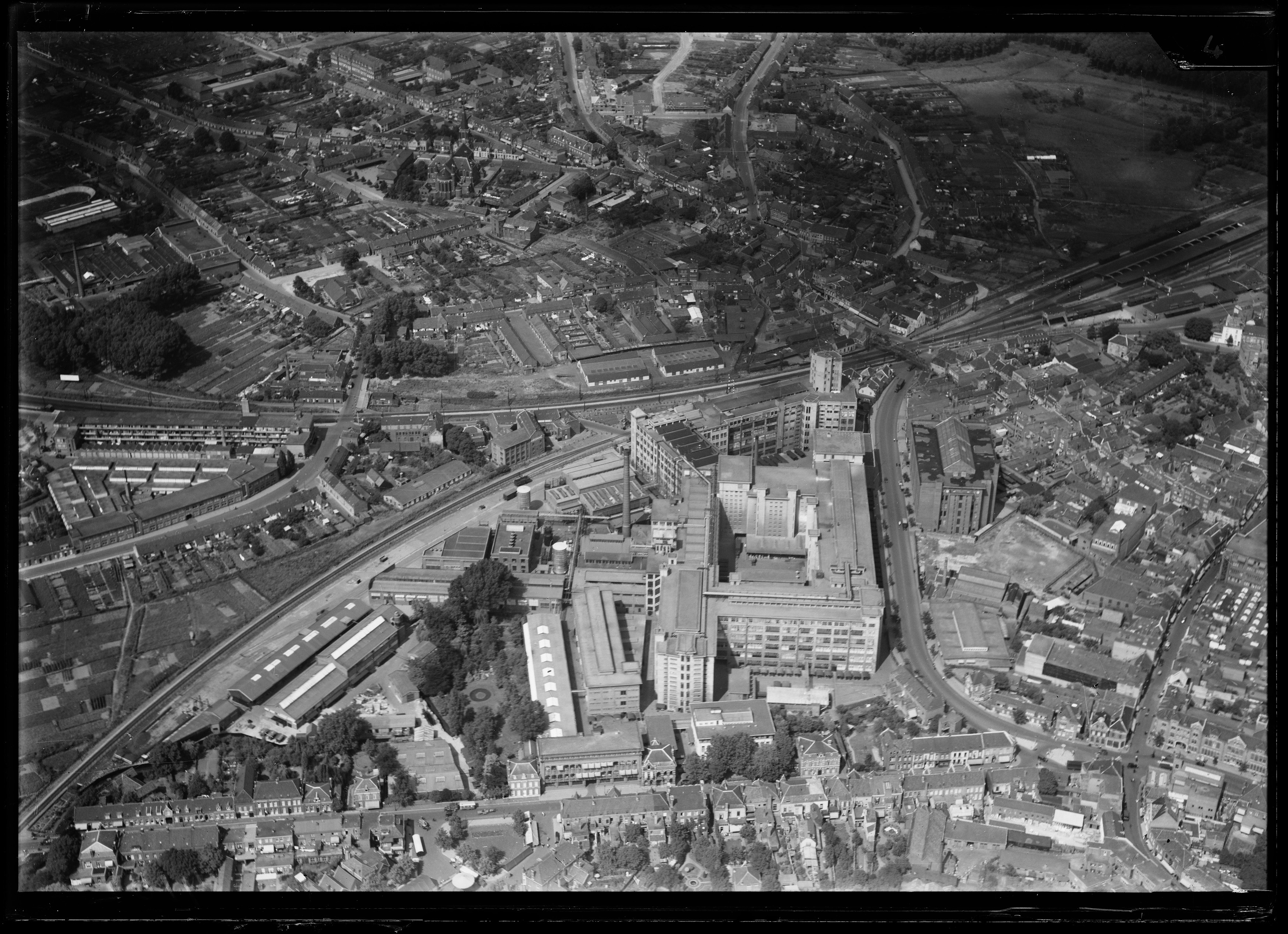 Aerial photograph of Eindhoven, The Netherlands